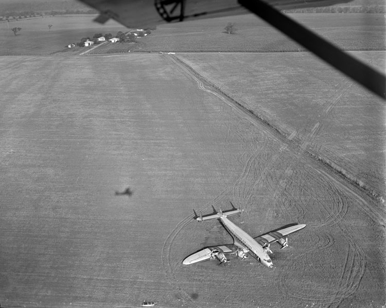 Eastern Air Lines Lockheed L-749A Constellation crash landing, Curles Neck Farm, 1951